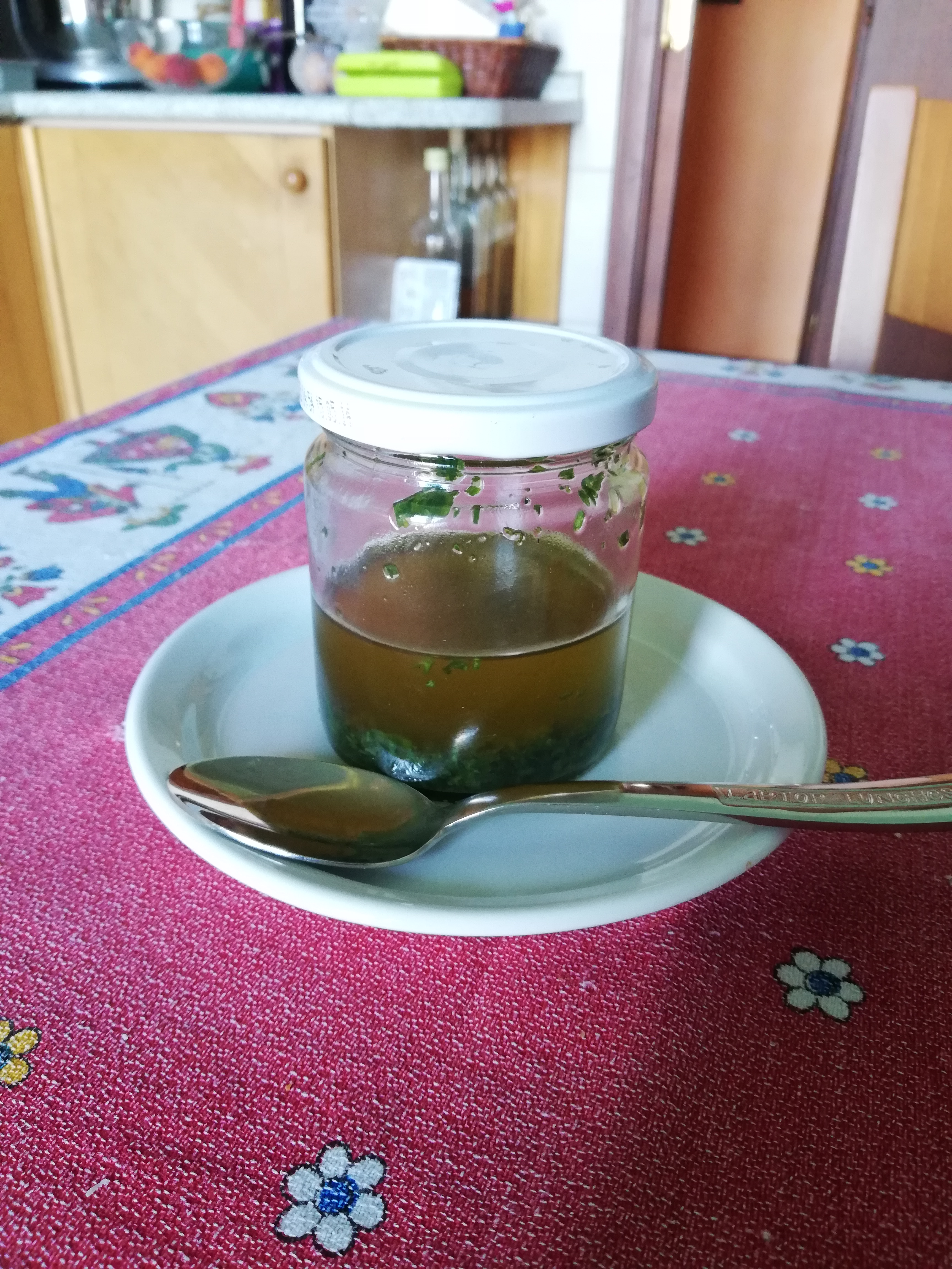 A jar with olive oil